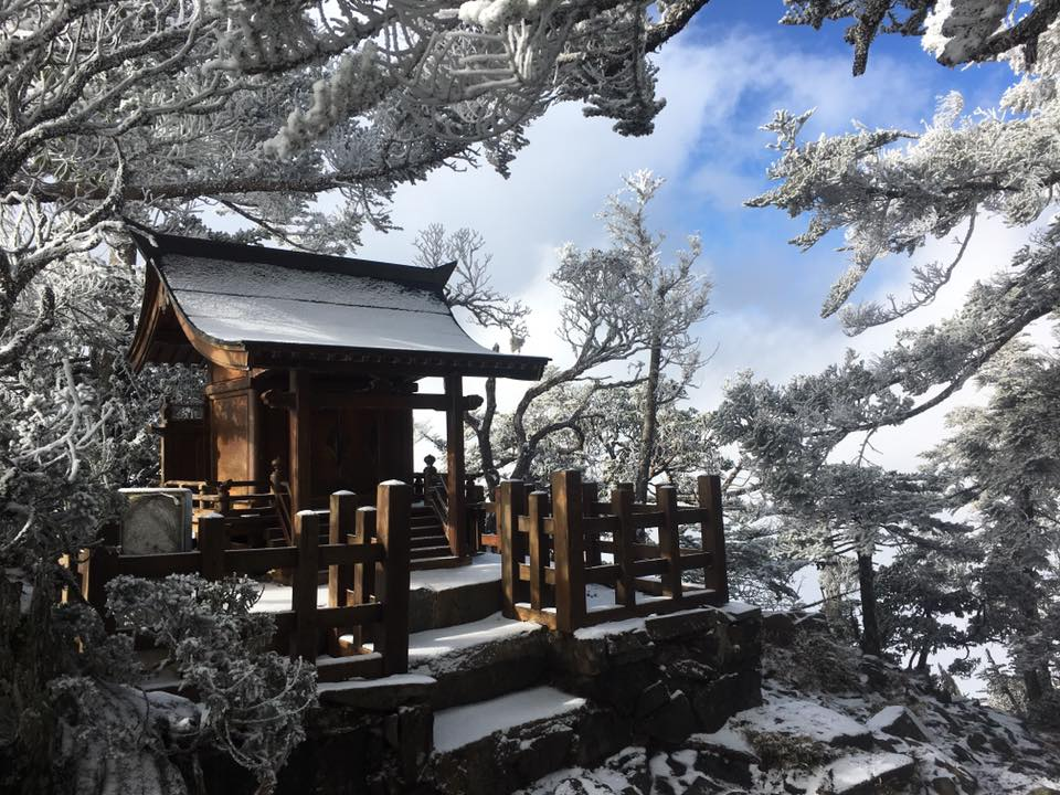 Shrine in Yushan National Park 中文（台灣）: 位於玉山西峰上的社祠